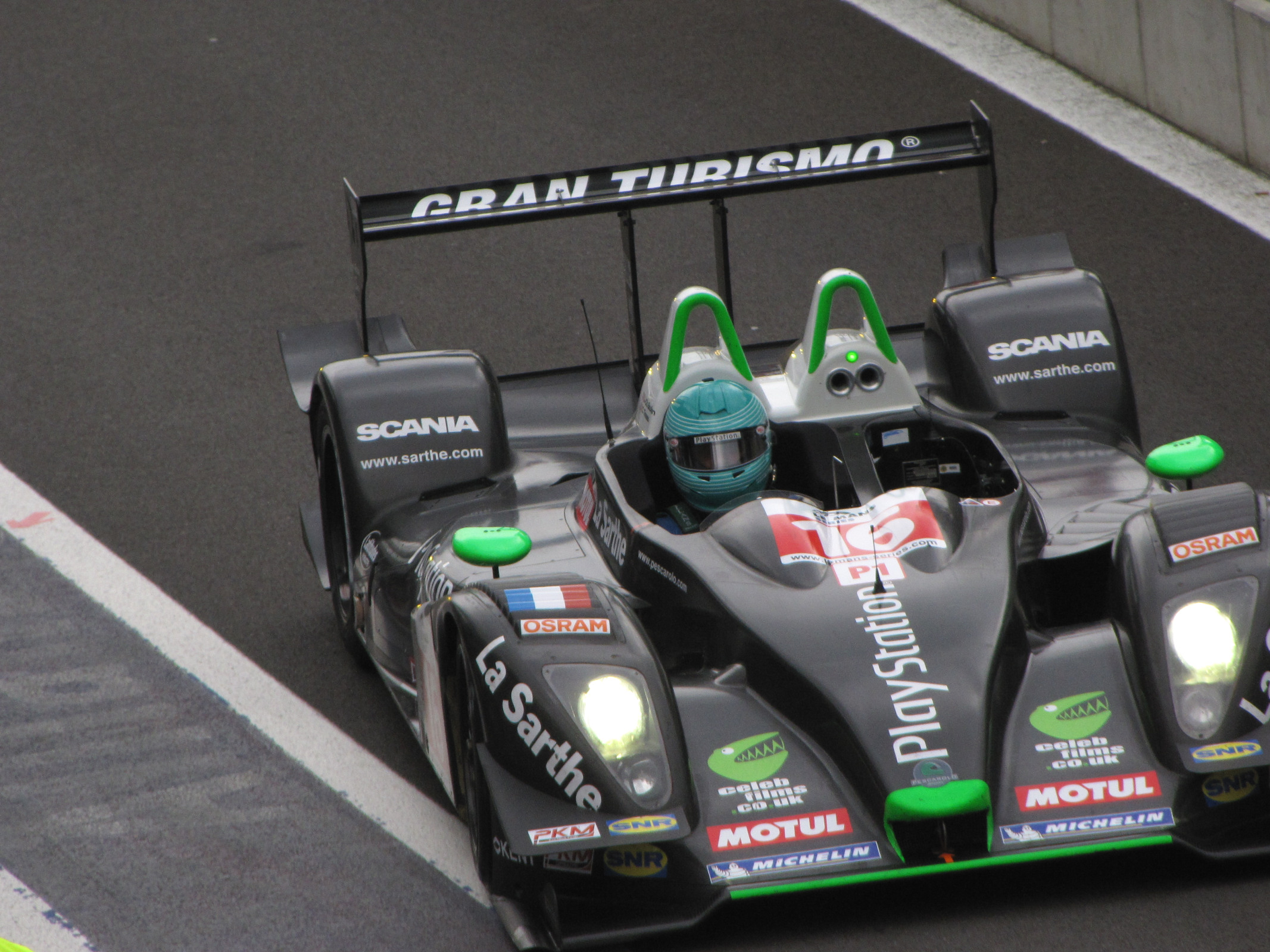 Jean-Christoph Boullion pilotant une Pescarolo 01 à Spa en 2009.